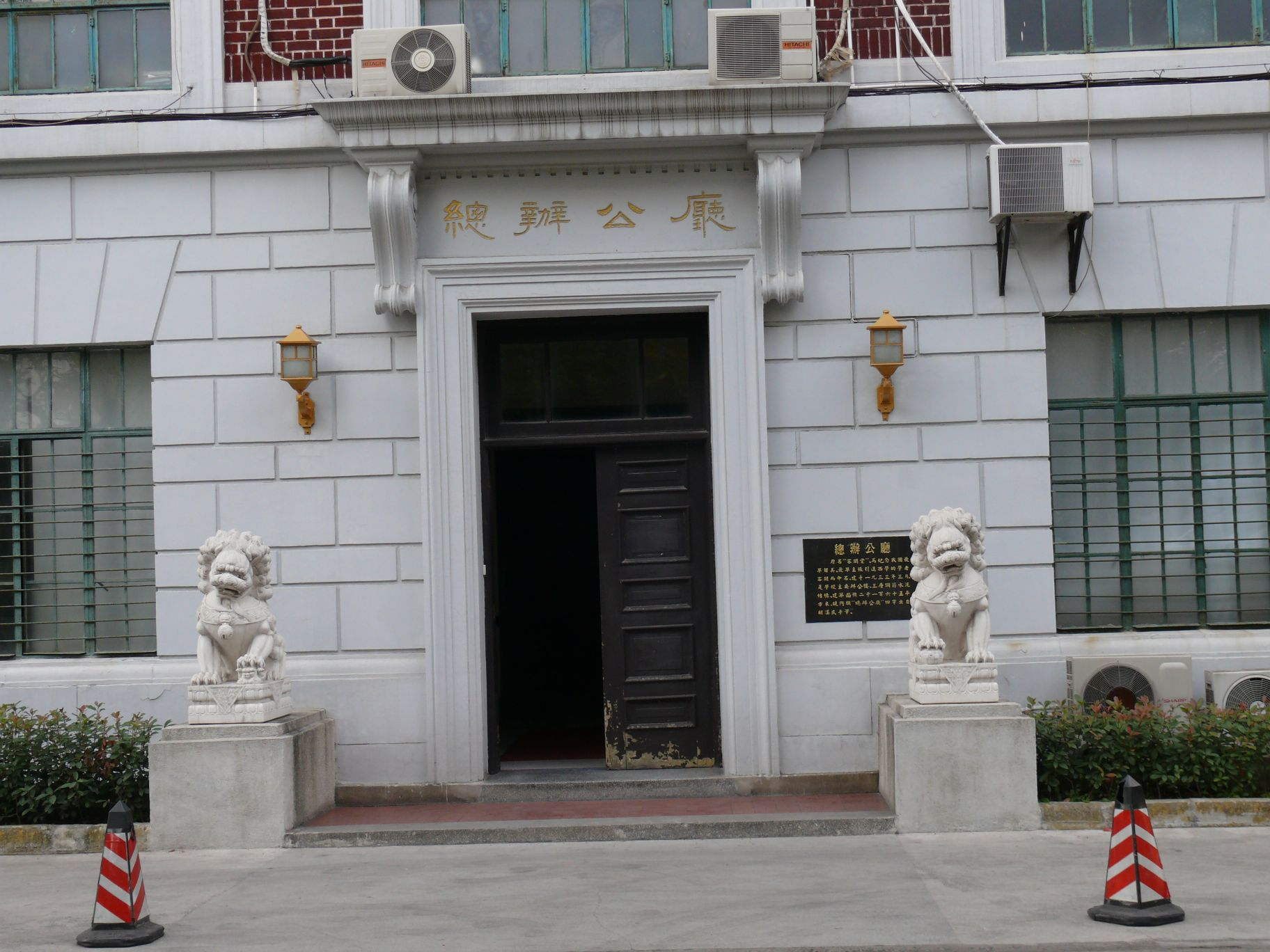 Official hall of Shanghai Jiao Tong University